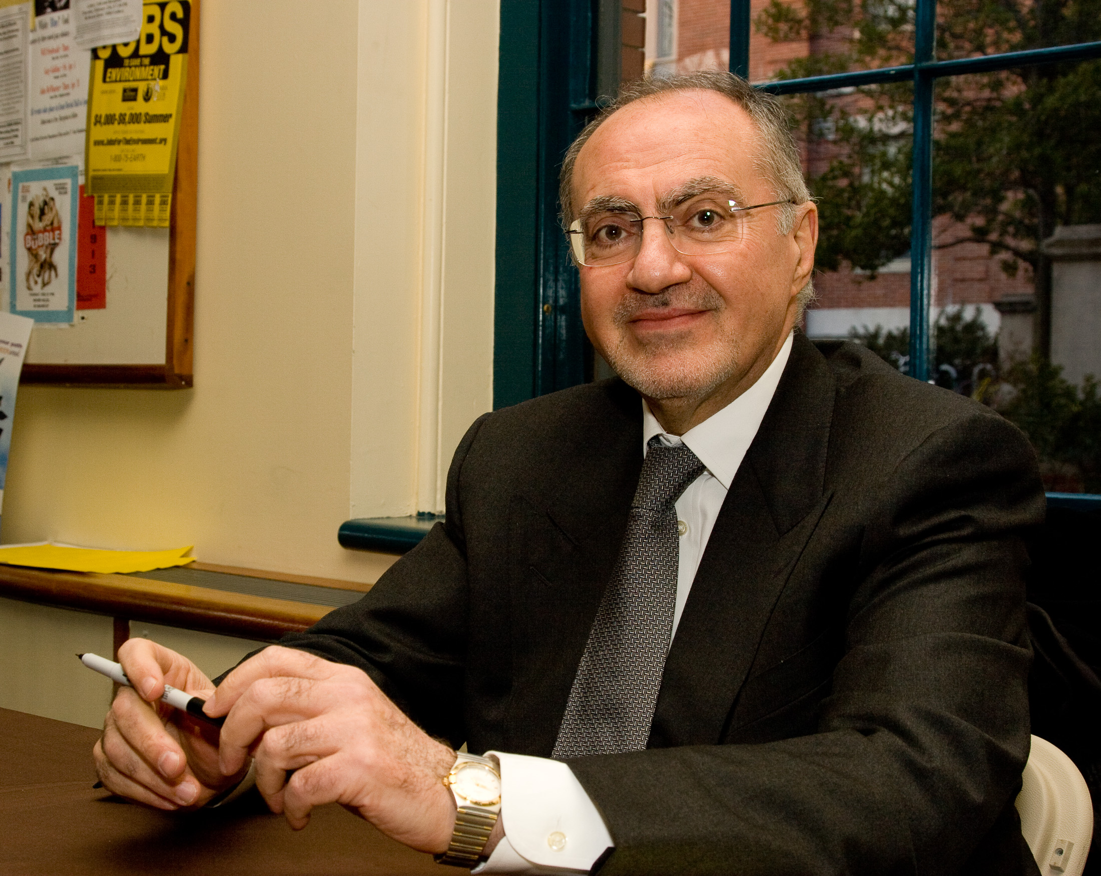 Ali Abdul-Amir Allawi appeared at Brown University, 2/20/08. Ali Abdul-Amir Allawi was Minister of Trade and Minister of Defense in the cabinet appointed by the Interim Iraq Governing Council from September 2003 until 2004, and subsequently Minister of Finance in the Iraqi Transitional Government between 2005 and 2006.